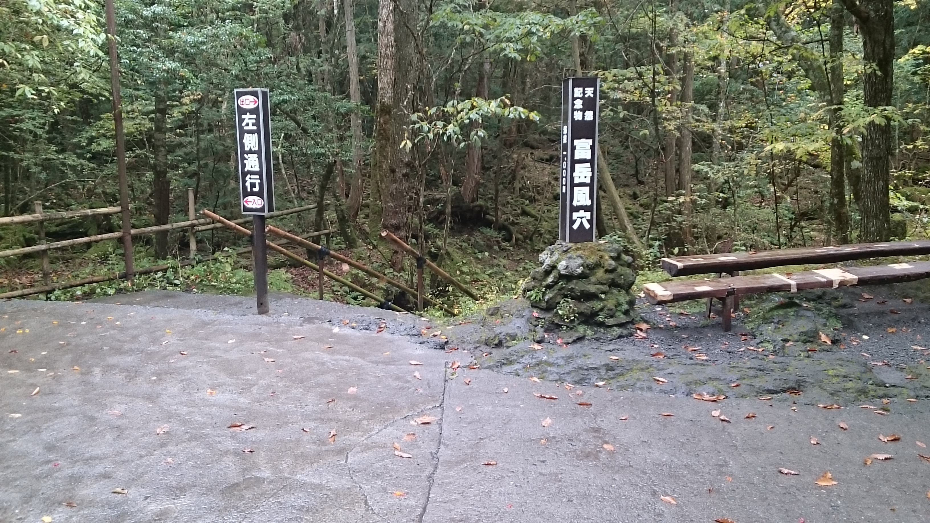 The entrance to Fugaku wind cave in October 25,2016. Fujikawaguchiko, Minamitsuru, Yamanashi, Japan.